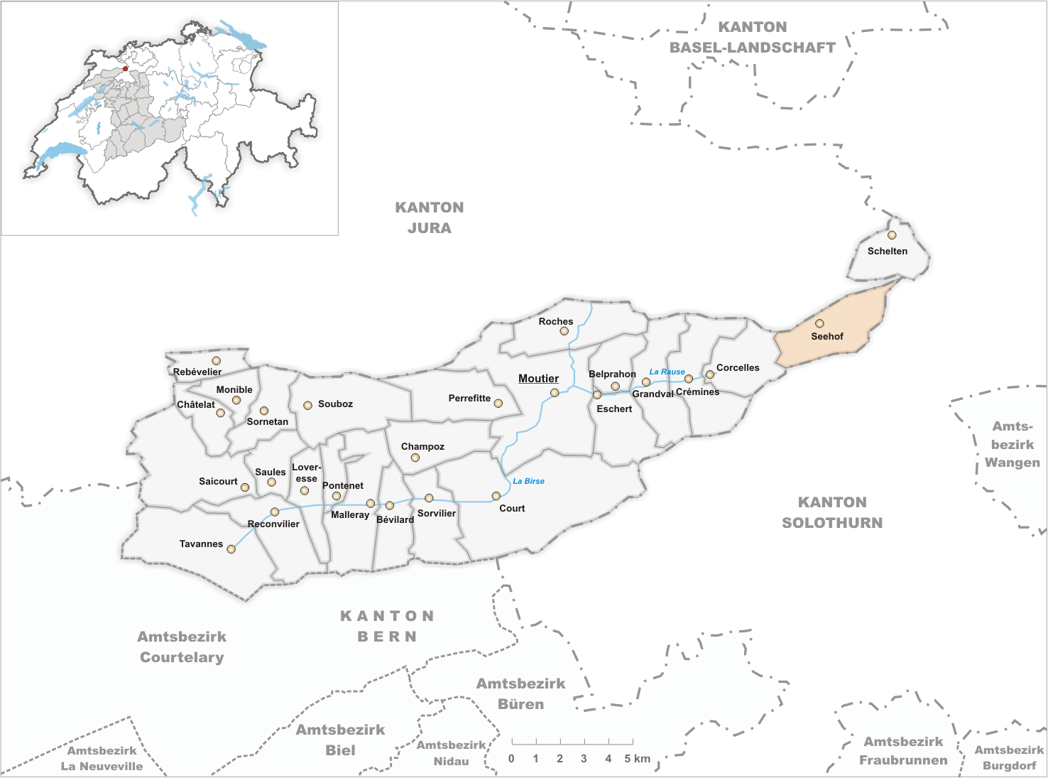 Municipality Seehof